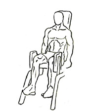 an exercise of thigh